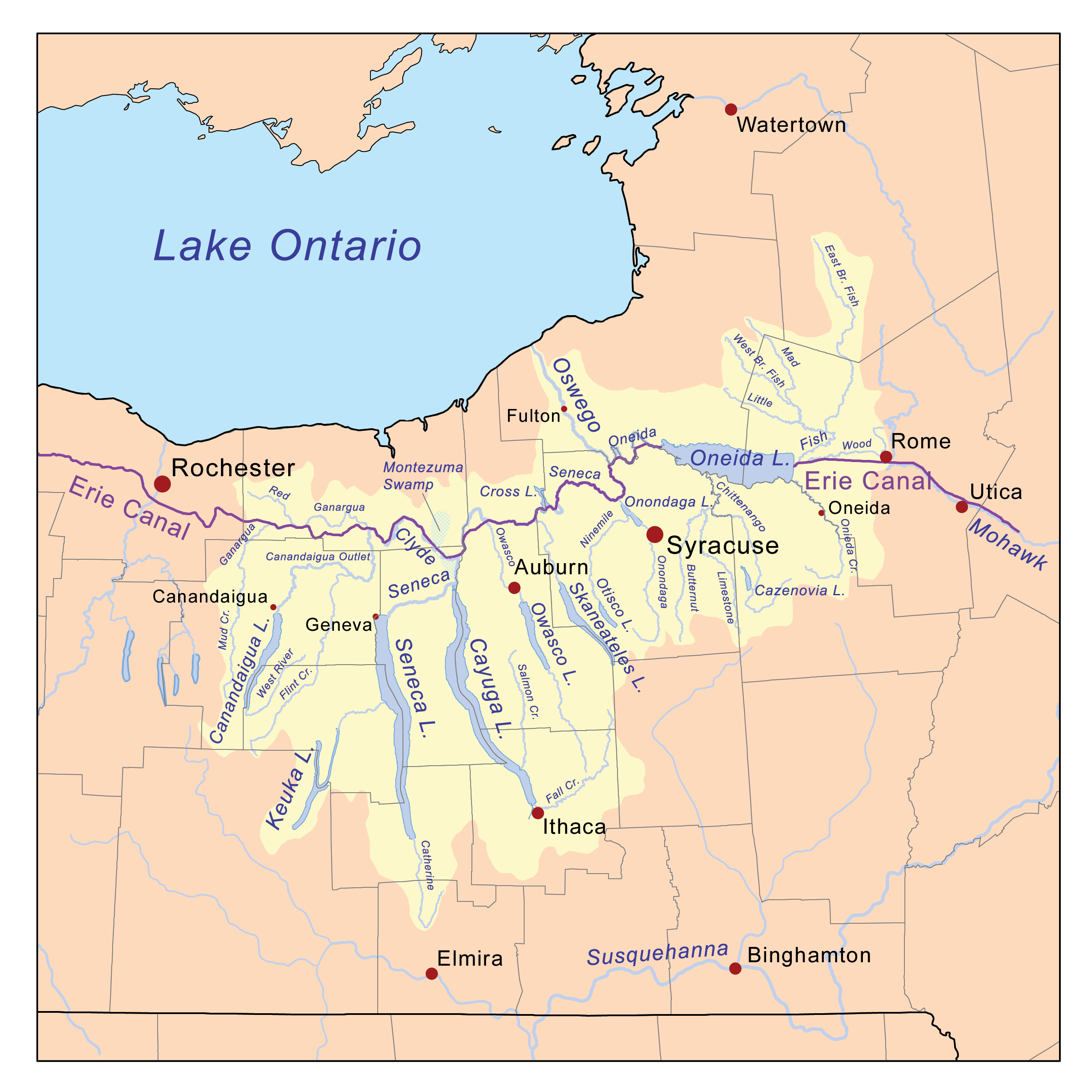 This is a map of the Oswego River/Finger Lakes drainage basin. I, Karl Musser, created it based on USGS data.